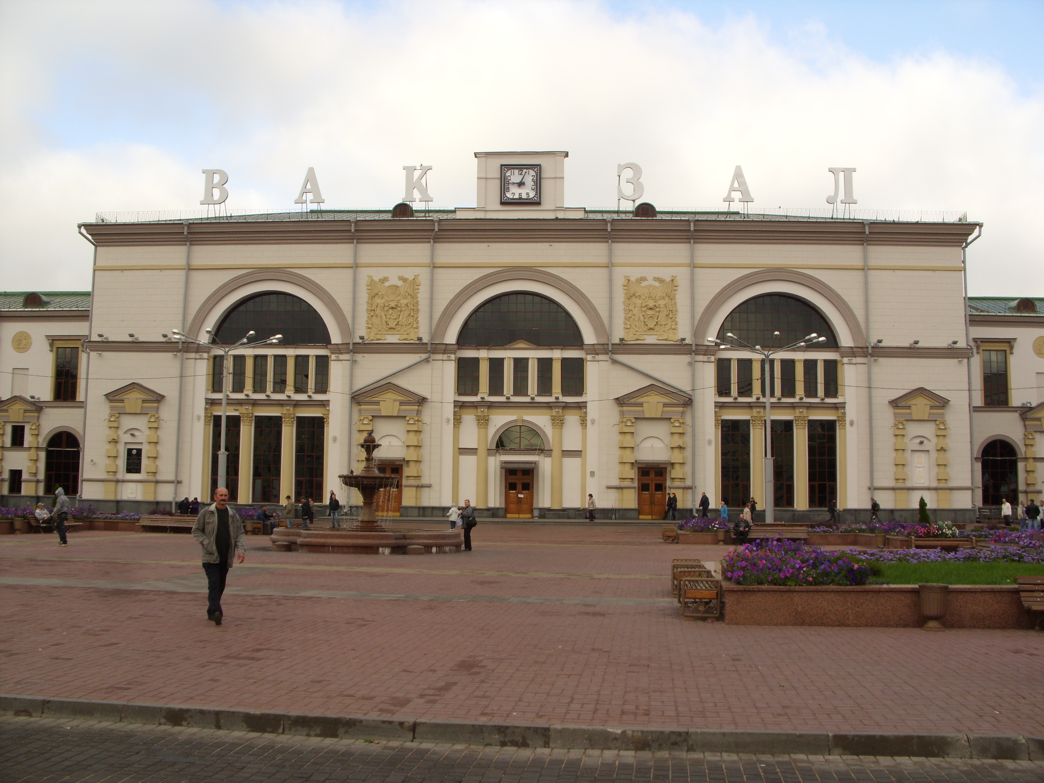 Vitebsk Railway Station.